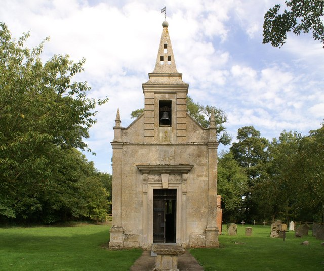 Little Gidding Church, near to Little Gidding, Cambridgeshire, Great Britain. Smallest of the three Giddings churches but by far the most famous